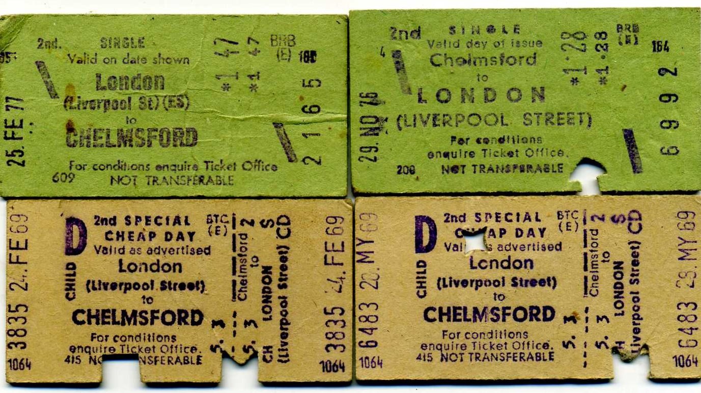 Edmondson Rail tickets, London Liverpool Street and Chelmsford 1969,1976 1977